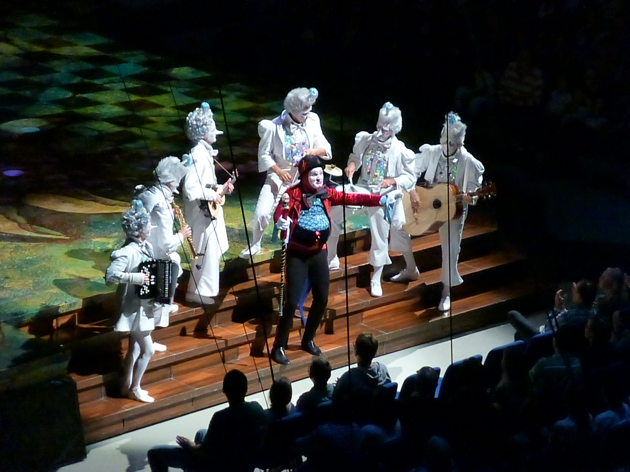 Cirque du Soleil 2012 Alegría, Istanbul, Turkey